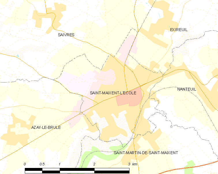 Map of French municipality Saint-Maixent-l'École